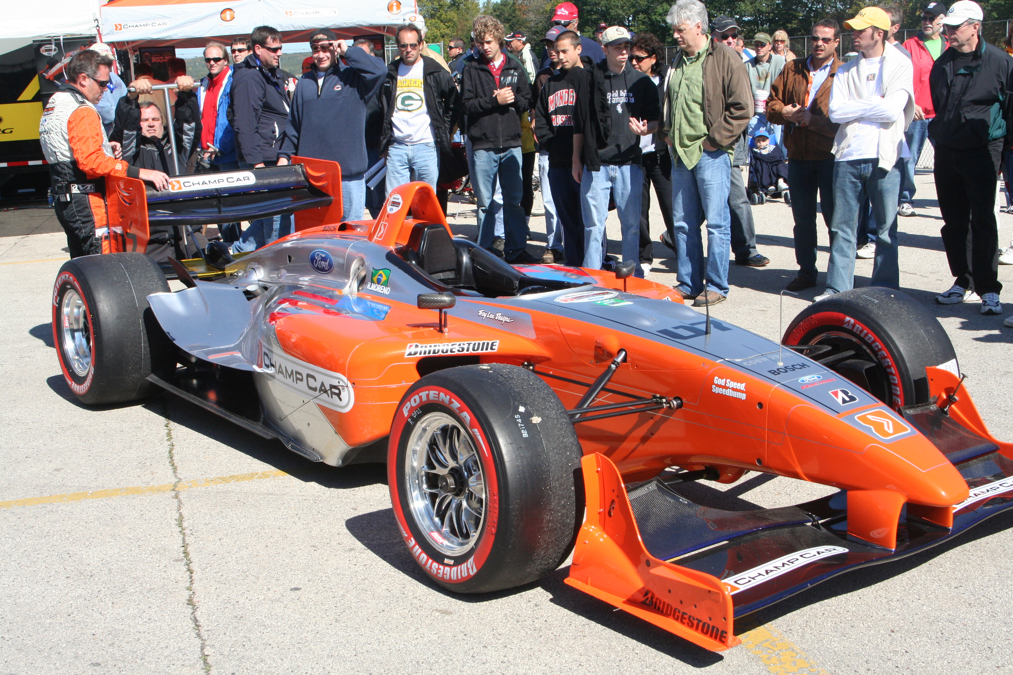 Panoz DP01 in it's original livery at Road America, September 2006 at its official unveiling.